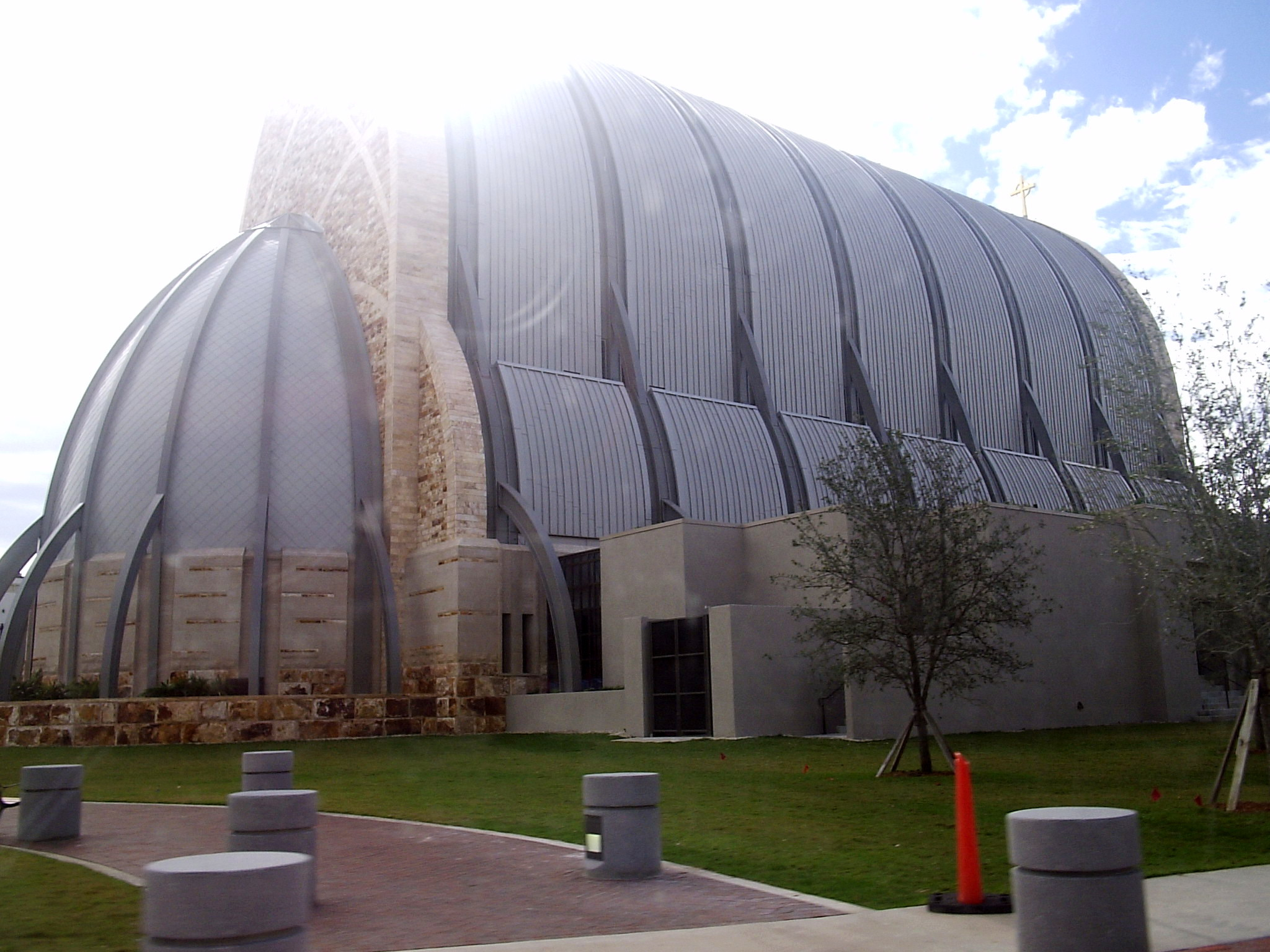 Picture of the Oratory being built in Ave Maria